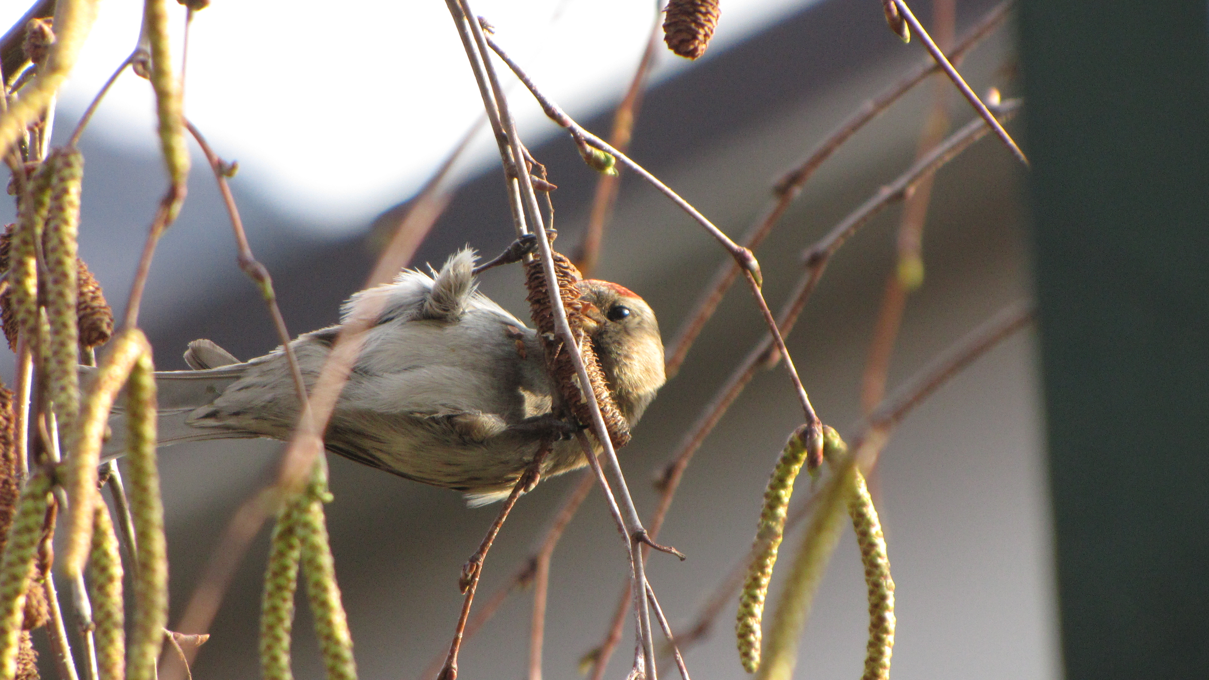 A Lesser Redpoll Acanthis cabaret while feeding on seeds of birch - Calliano, Italy